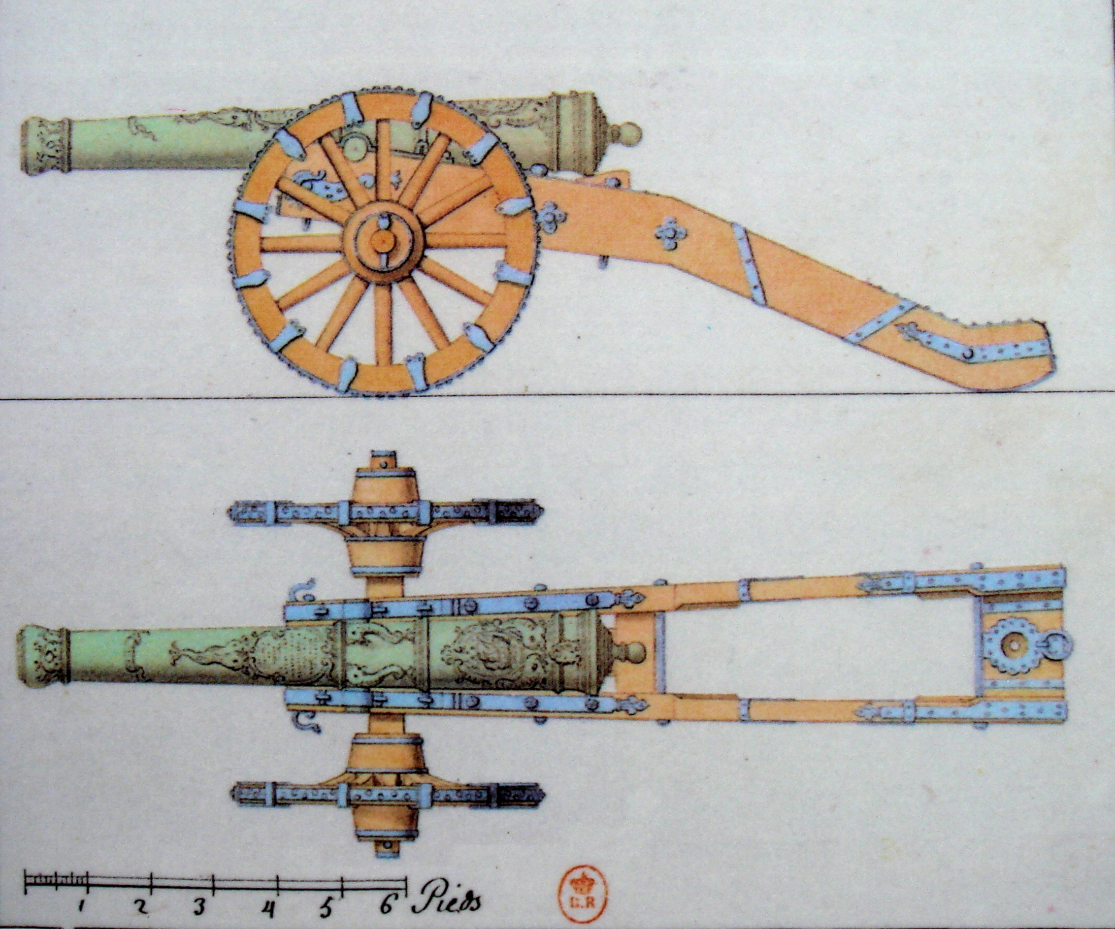 Canon_Classique_Francais